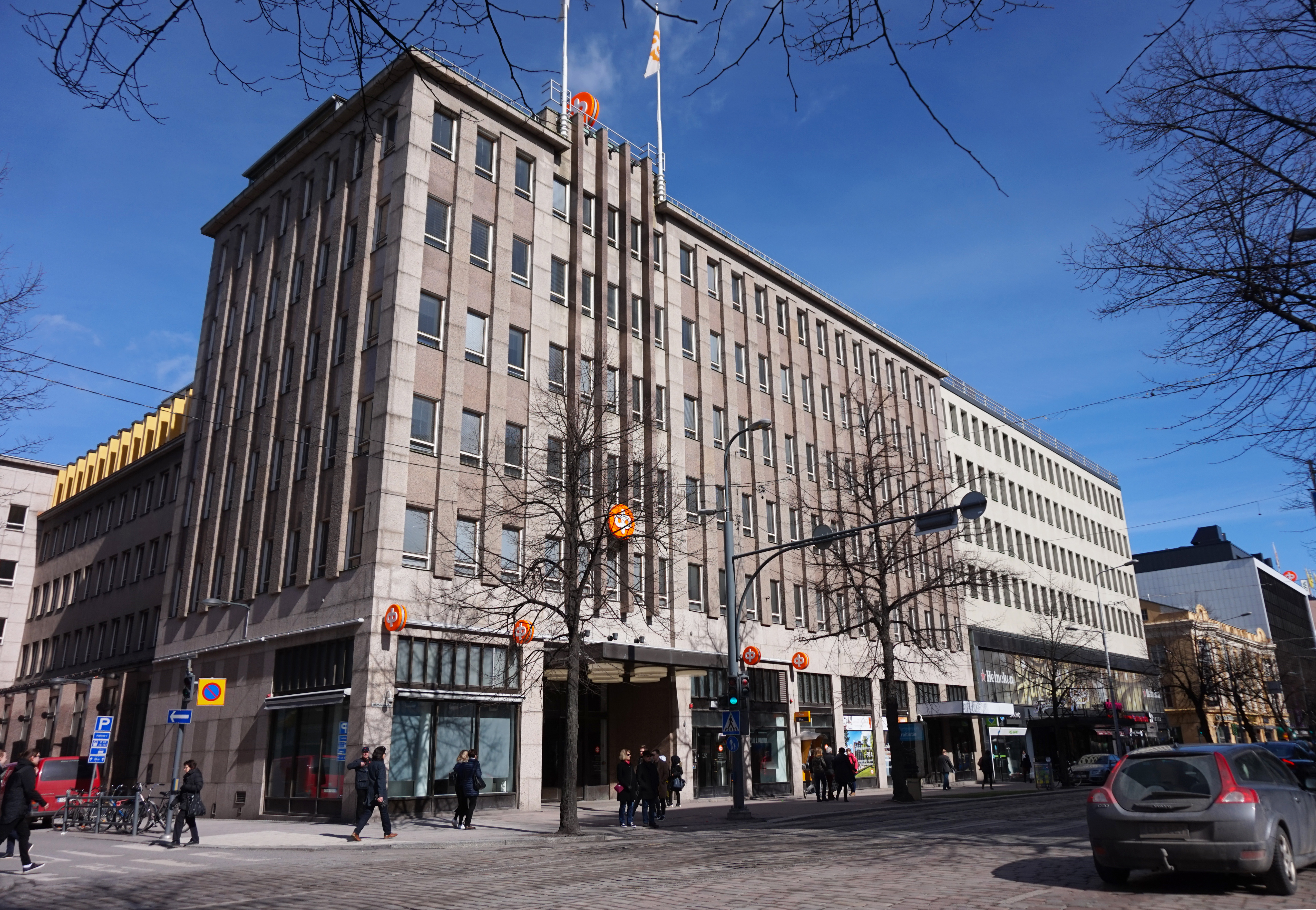 The bank Osuuspankki on the street Hämeenkatu, Tampere.